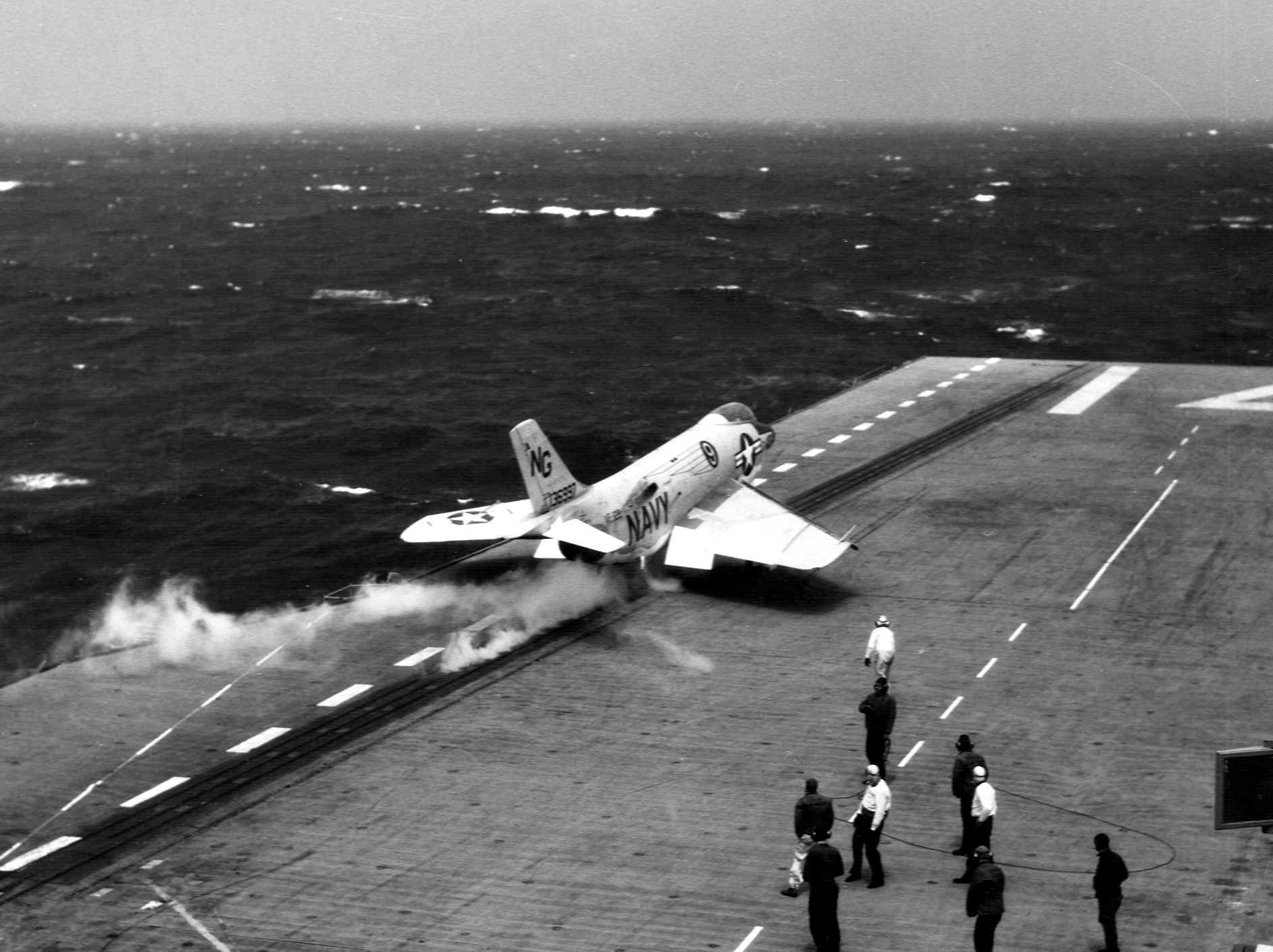 A McDonnell F3H-2N Demon (BuNo 137001) from Fighter Squadron VF-122 "Black Angels" is readied for launching aboard the U.S. Navy aircraft carrier USS Ticonderoga (CVA-14).